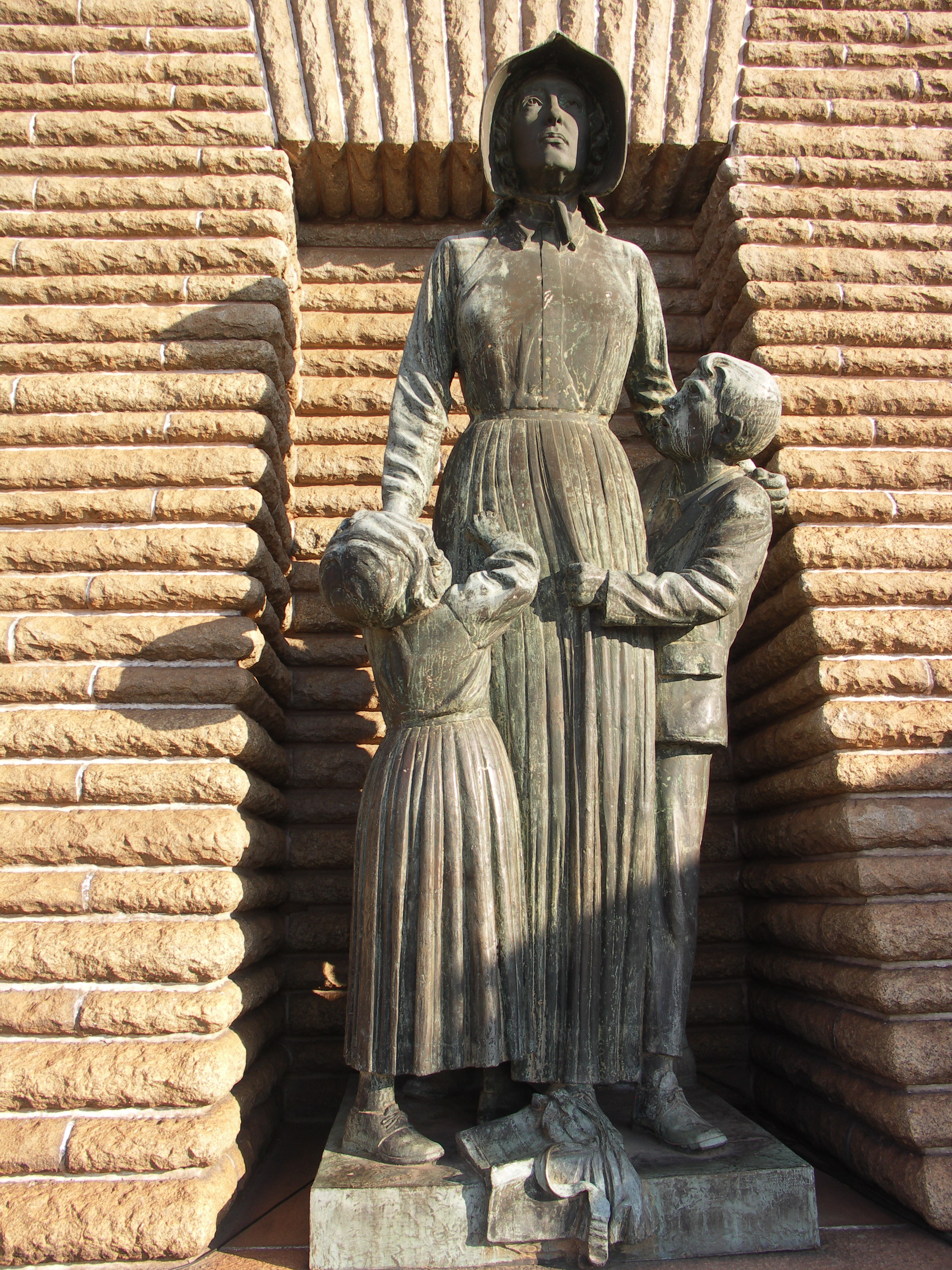 Statue: Woman and Children by Anton van Wouw at the base of the Voortrekker Monument in Pretoria